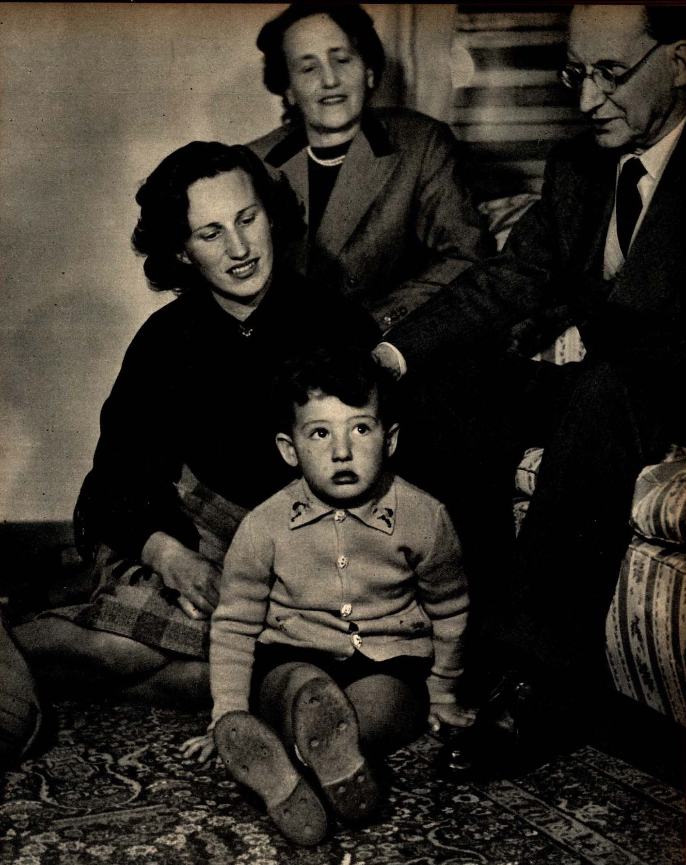 Alcide De Gasperi and his family